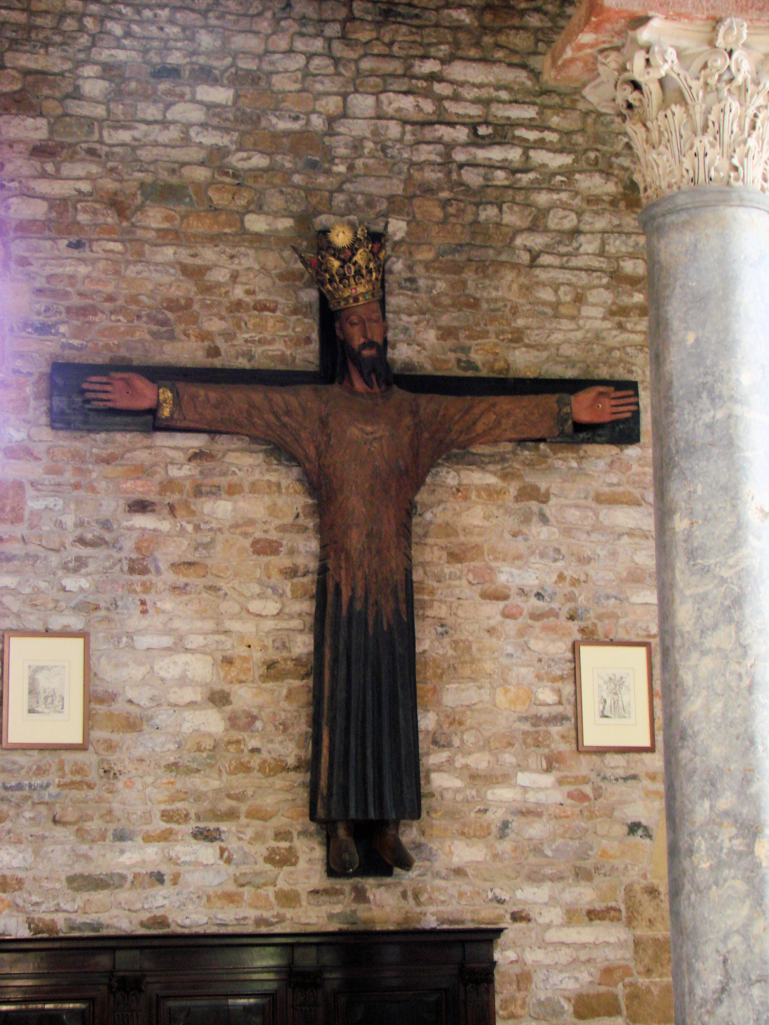 San Sisto Church, Pisa - Crucifix